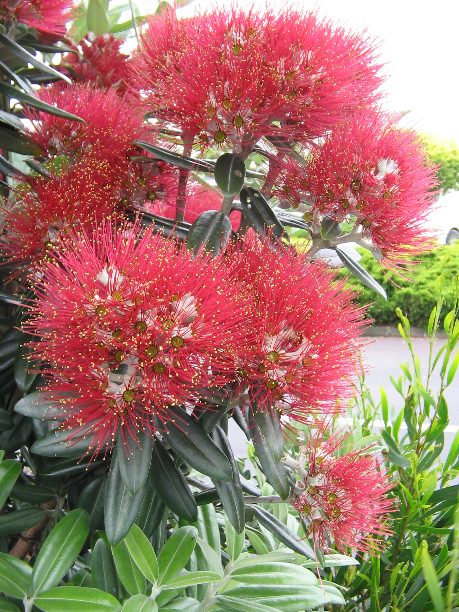 Flowers of the Pohutukawa tree (Metrosideros excelsa), also called New Zealand Christmas Tree